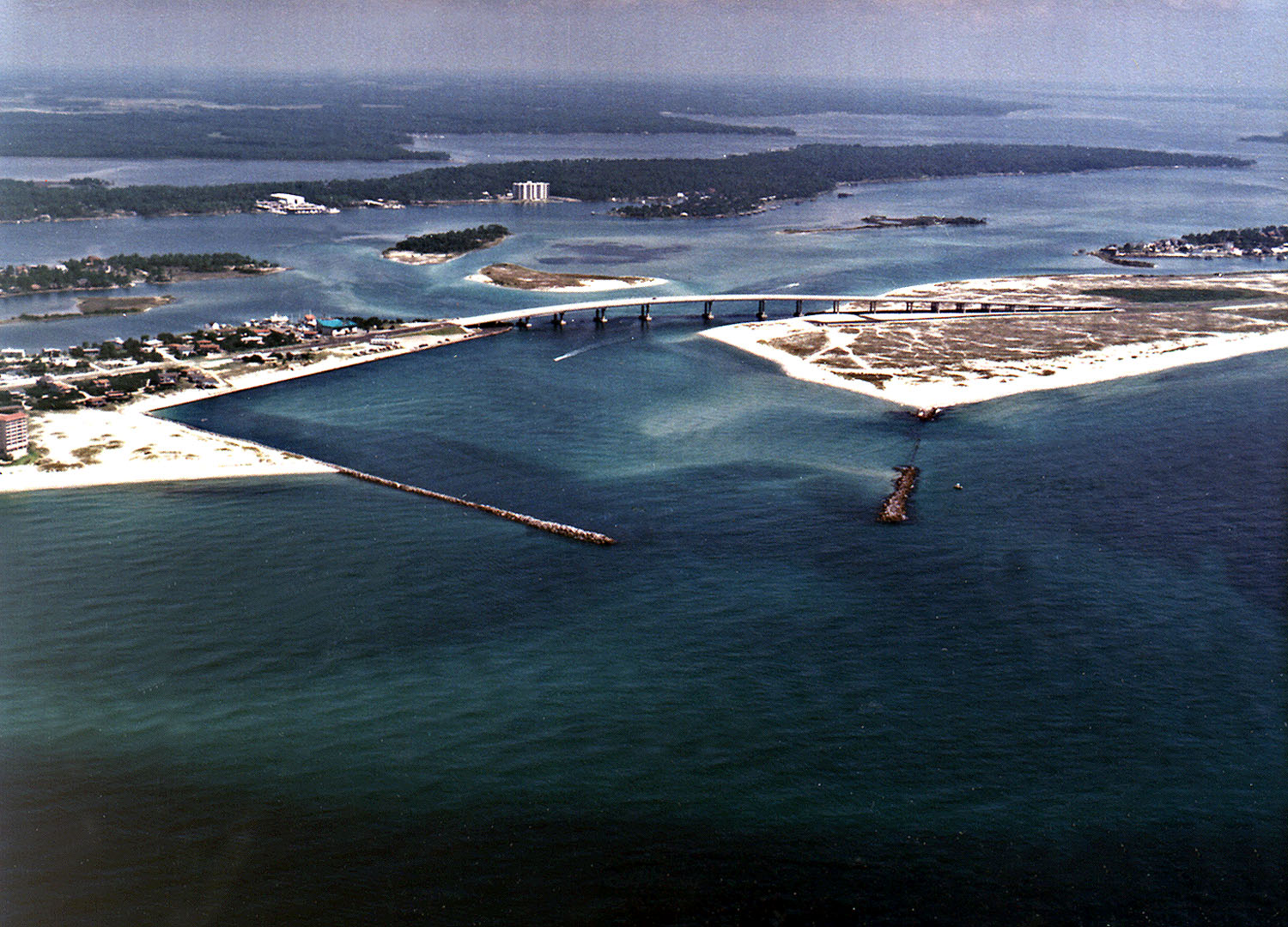 Perdido Pass, the mouth of the Perdido River and Perdido Bay on the Gulf of Mexico at Orange Beach, Alabama, USA. Alabama State Route 182 crosses the inlet. The image description on the USACE source page has misidentified the highway on the bridge as U.S. Route 98.